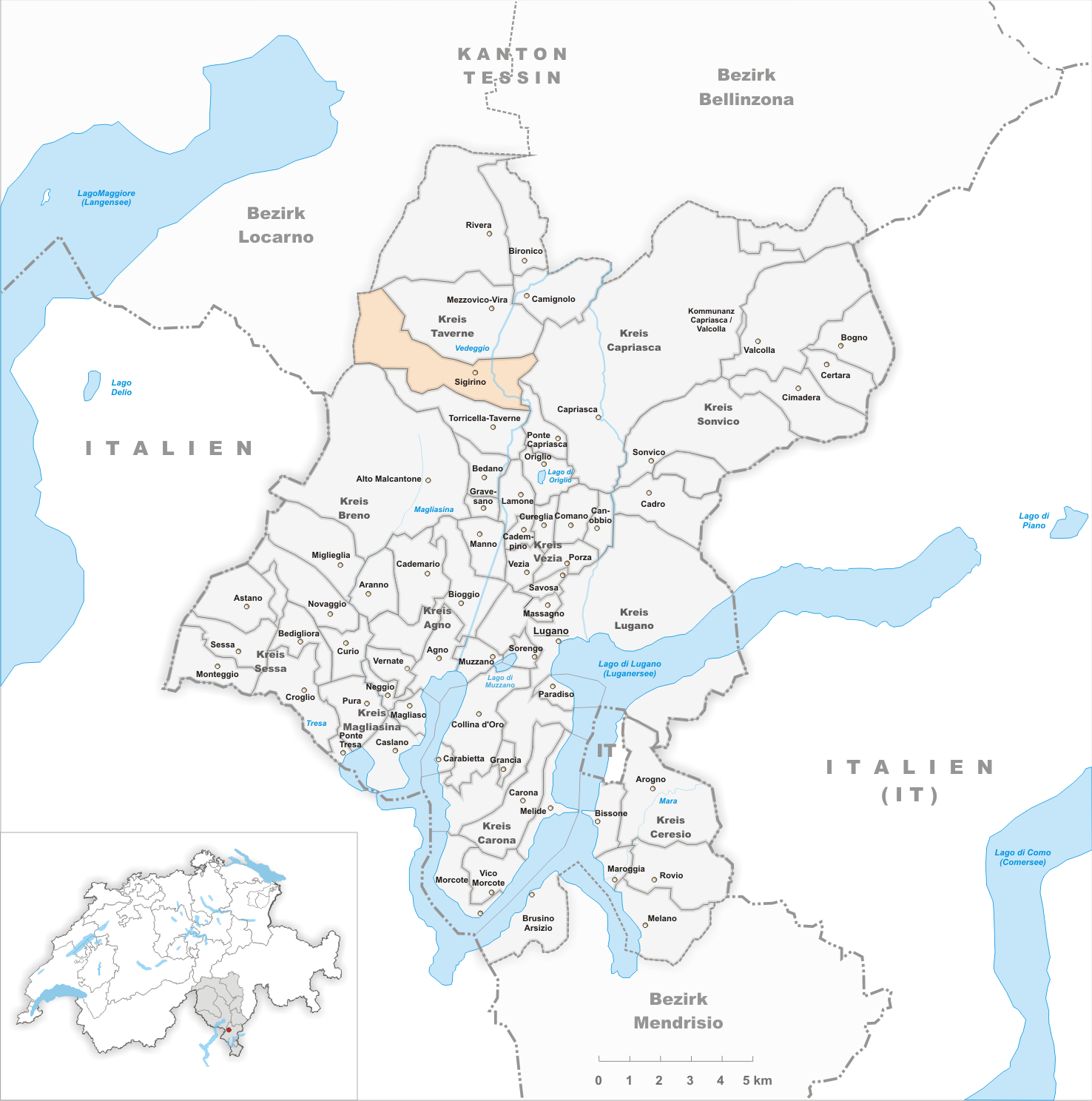 Municipality Sigirino